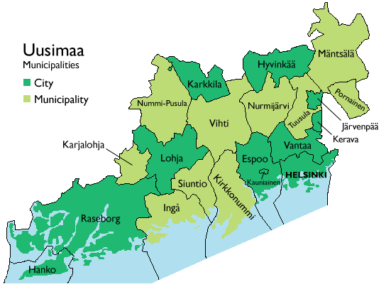 A map of the municipalities of Uusimaa.